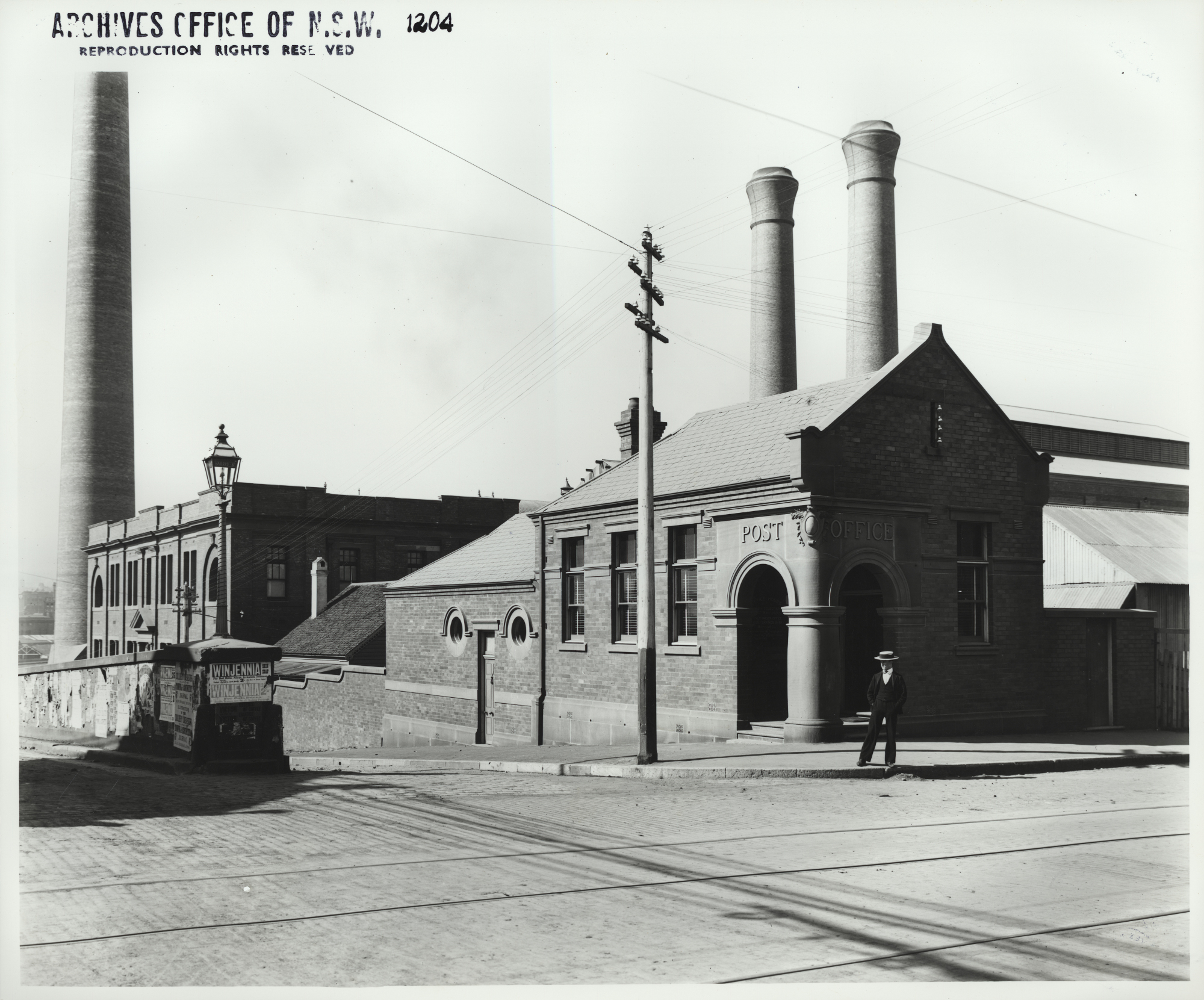 Title:Post Office, Harris Street, Ultimo (NSW) Dated: No date Digital ID: 4481_a026_000859 Rights: No known copyright restrictions We'd love to hear from you if you use our photos/documents. Many other photos in our collection are available to view and browse on our website using Photo Investigator .